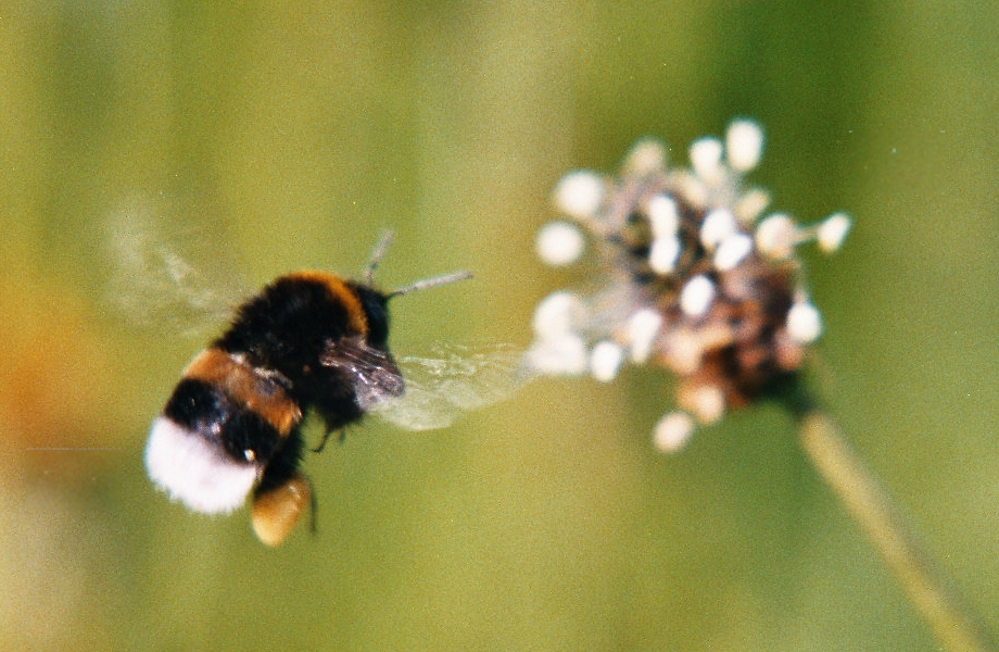 Bombus spec. (cf. Bombus lucorum) with pollen baskets (corbiculae) flying onto a Plantago lanceolata